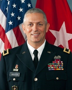 Official Photo